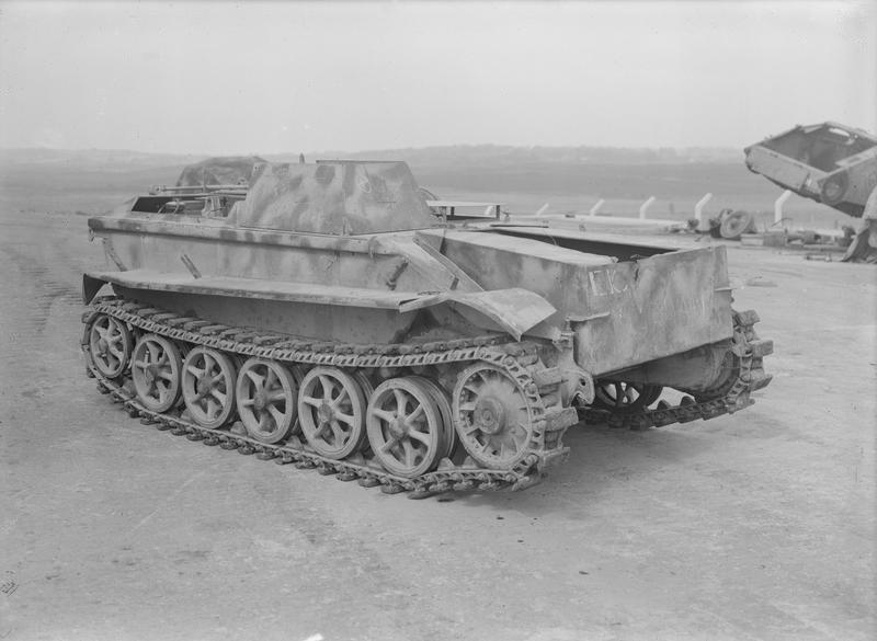 Schwere Ladungstrager Ausf A (© IWM (STT 6793)